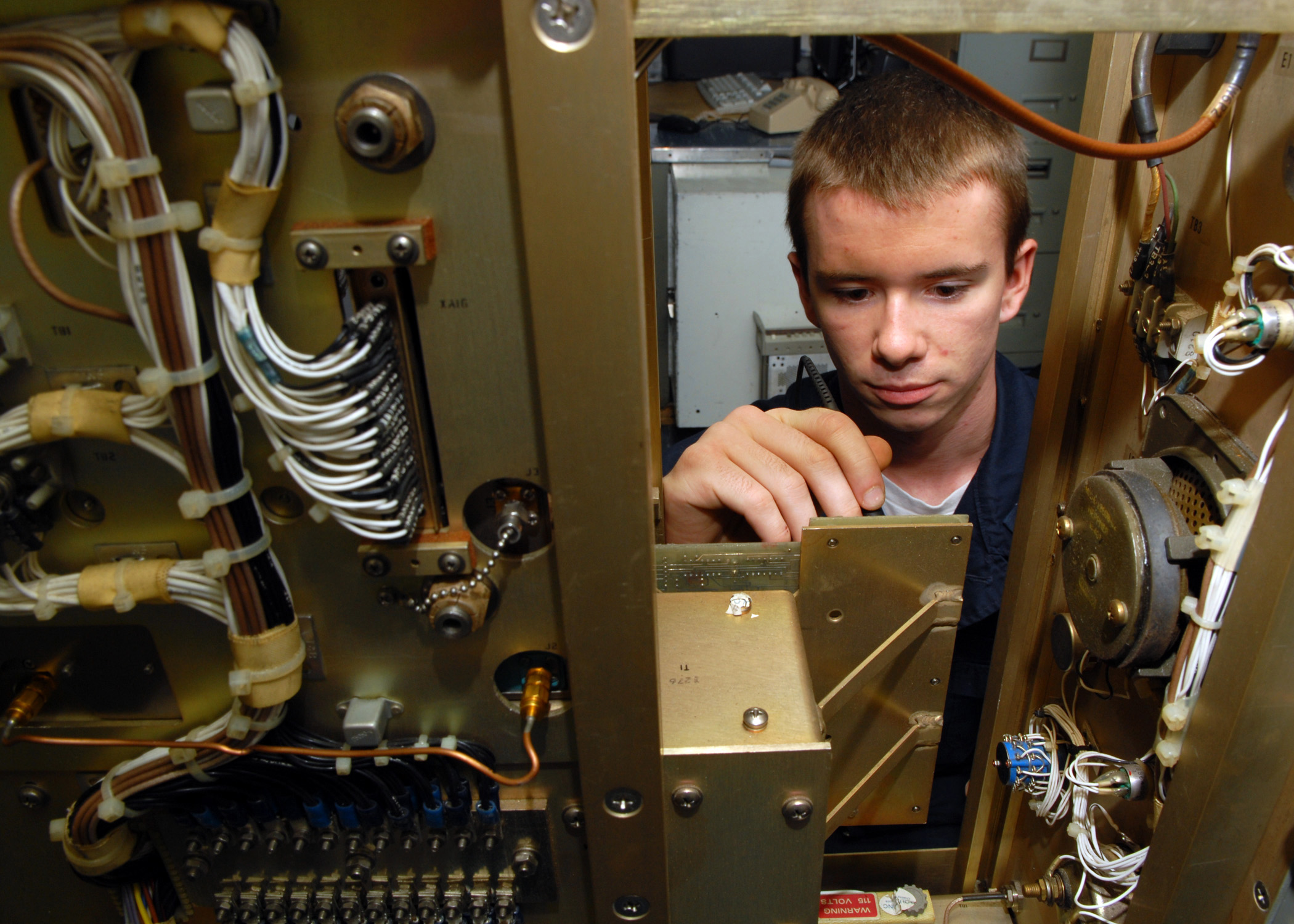 NORTH ARABIAN SEA (Aug. 20, 2008) Electronics Technician 3rd Class Michael J. Isenmann, from St. Louis, Mo., performs a voltage check on a power circuit card in Air Navigation Equipment room aboard the aircraft carrier USS Abraham Lincoln (CVN 72). Lincoln is deployed to the U.S. 5th Fleet area of responsibility supporting Operations Iraqi Freedom and Enduring Freedom as well as maritime security. (U.S. Navy photo by Mass Communication Specialist 3rd Class Ronald A. Dallatorre/Released)